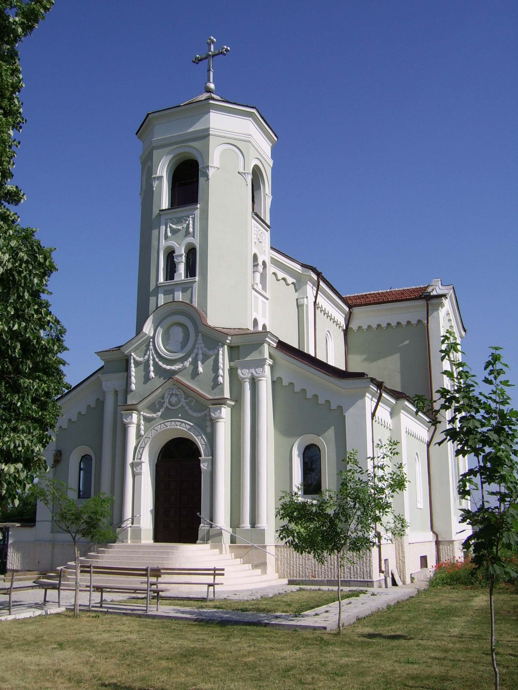 Catholic church in Parchevich Estate in the town of Rakovski, Bulgaria.